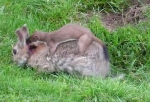 Stoat killing a rabbit (1) This photo was taken shortly after the stoat first attacked the rabbit. The rabbit is desperately trying to get the stoat off its back, hence the blurring caused by the movement. The stoat's teeth are sunk deep into the back of the rabbit's neck. The attack took place in the middle of a quiet road and the stoat dragged the much bigger squealing rabbit into the grass. (see other photo) 946693